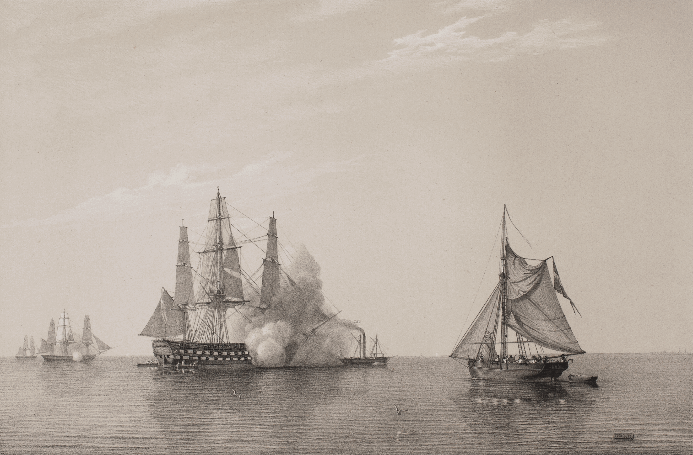 The print shows the Crown Prince Frederik leaving the squadron aboard the royal steamship Kiel. Frederik's wife was a princess from Mecklenburg. This is a cropped version of the original print, which has a text describing the event.